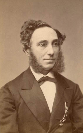 Ernesto Camillo Sivori, Violinist and composer, circa 1870.